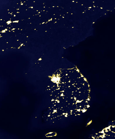 Satellite picture displaying the Korean peninsula at night. Note: North Korea turns off street lighting late evening,[1], which may or may not be reflected in this photograph.